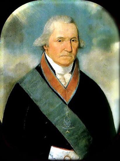 Portrait of George Washington in Masonic regalia by William Joseph Williams, 1794. Pastel on paper, 71.1 x 55.8 cm (28 x 22 in.). Alexandria-Washington Masonic Lodge No. 22, Ancient, Free, and Accepted Masons, Alexandria, Virginia. Note: This work was commissioned by the Alexandria-Washington Masonic Lodge No. 22, where Washington was a Master. Williams's portrait shows Washington as a Virginia past master, with Masonic regalia and jewels. Williams's depiction includes a scar on Washington's left cheek, smallpox scars on his nose and cheeks, and a mole under his right ear.